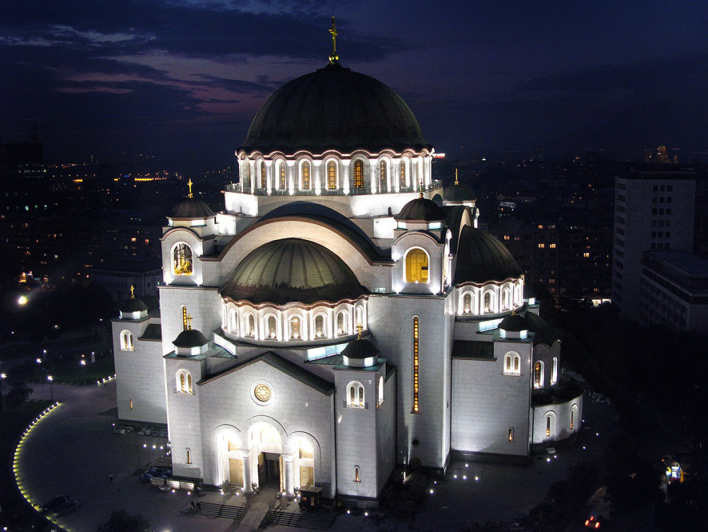 World largest Orthodox Church located in Belgrade, Serbia